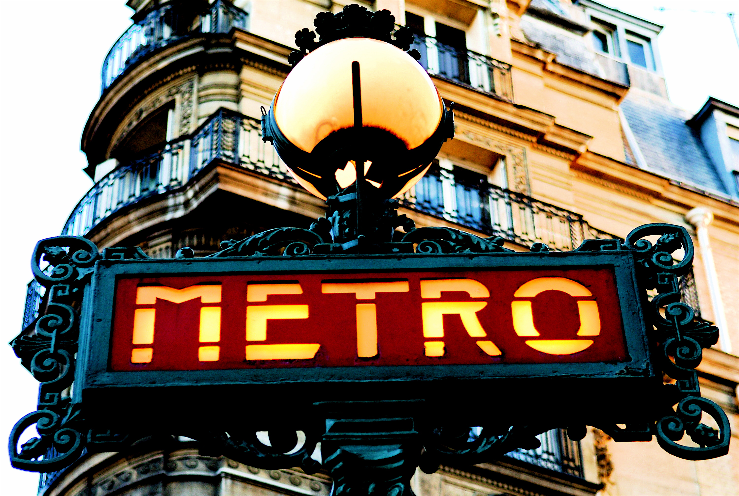 Une station du métro place Saint-André-des-Arts, Paris 6e arrondissement